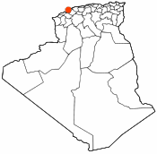 Blank map of the provinces of Algeria with a red city locator dot. Made by User:Escondites, blank version by User:Golbez.